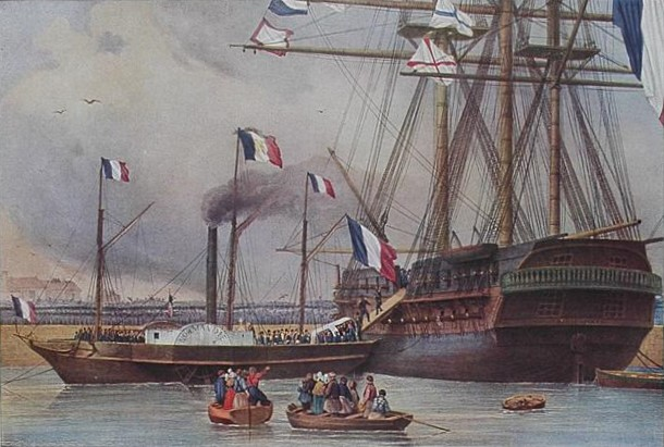 The boarding of the body of Napoleon at Cherbourg from the frigat La Belle Poule to the Normandie 8 December 1840. this illustration later appeared in " L'illustration : Centenaire de la mort de Napoléon " - Revue - Paris - 7 mai 1921. Lithographer: Saint Aulaire et Bichebois, after V. Adam